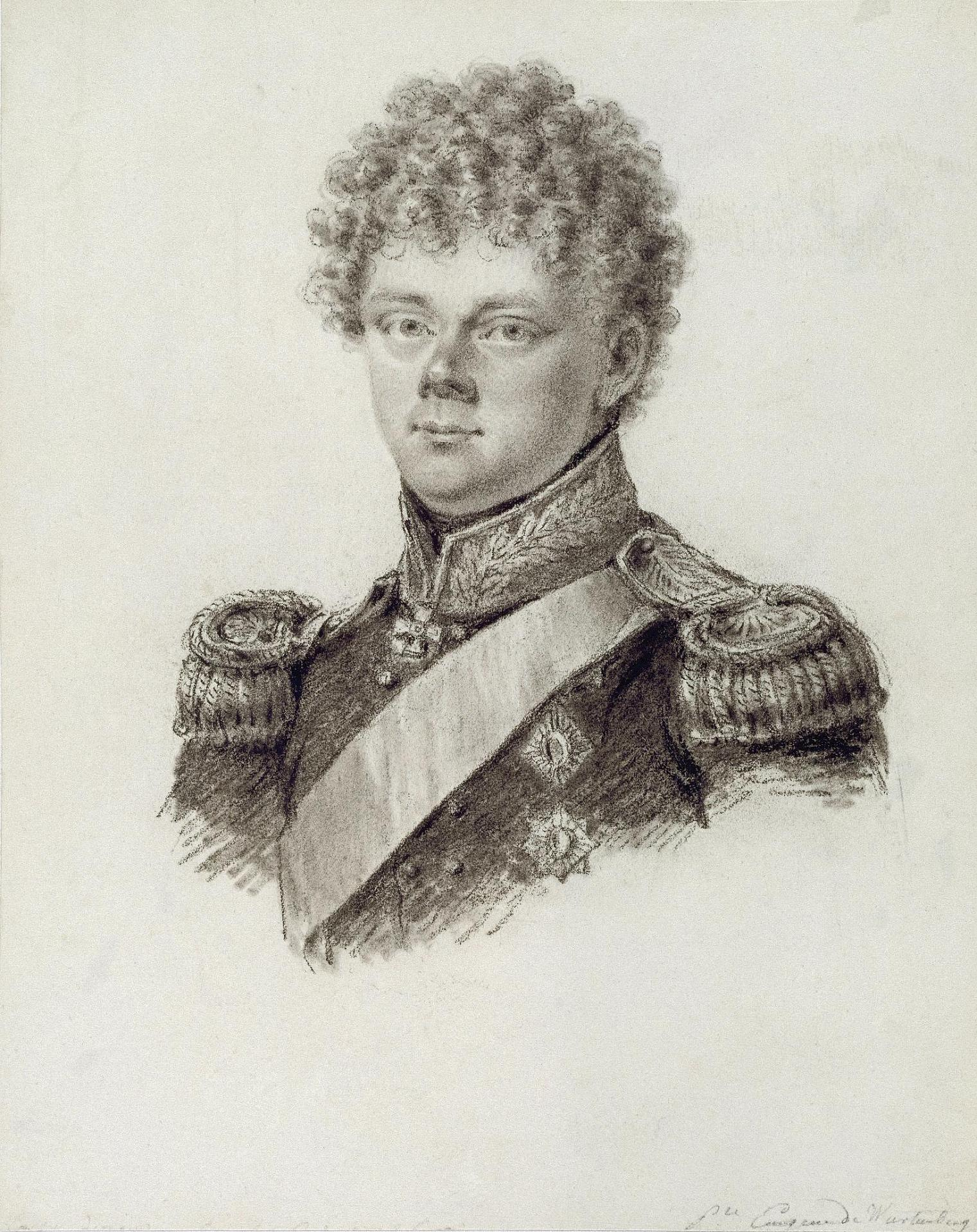 Portrait of Prince Eugen of Wurttemberg